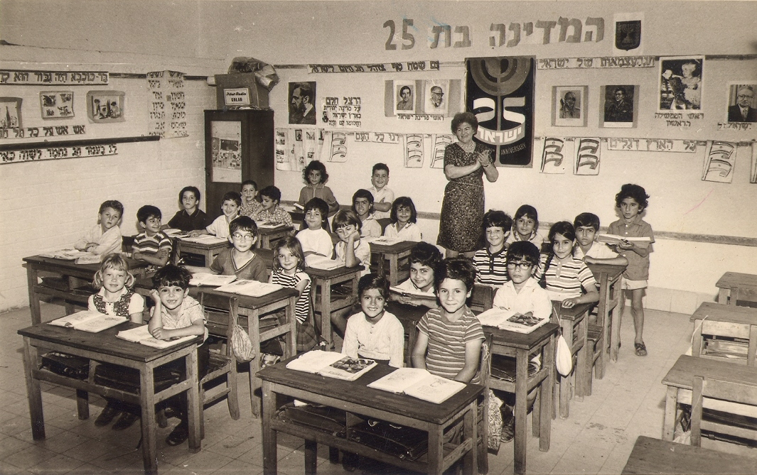 A first-grade classroom in the Vitkin School in Tel Aviv on Israel Independence Day #25